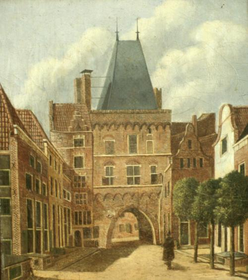 Entrance to Deventer